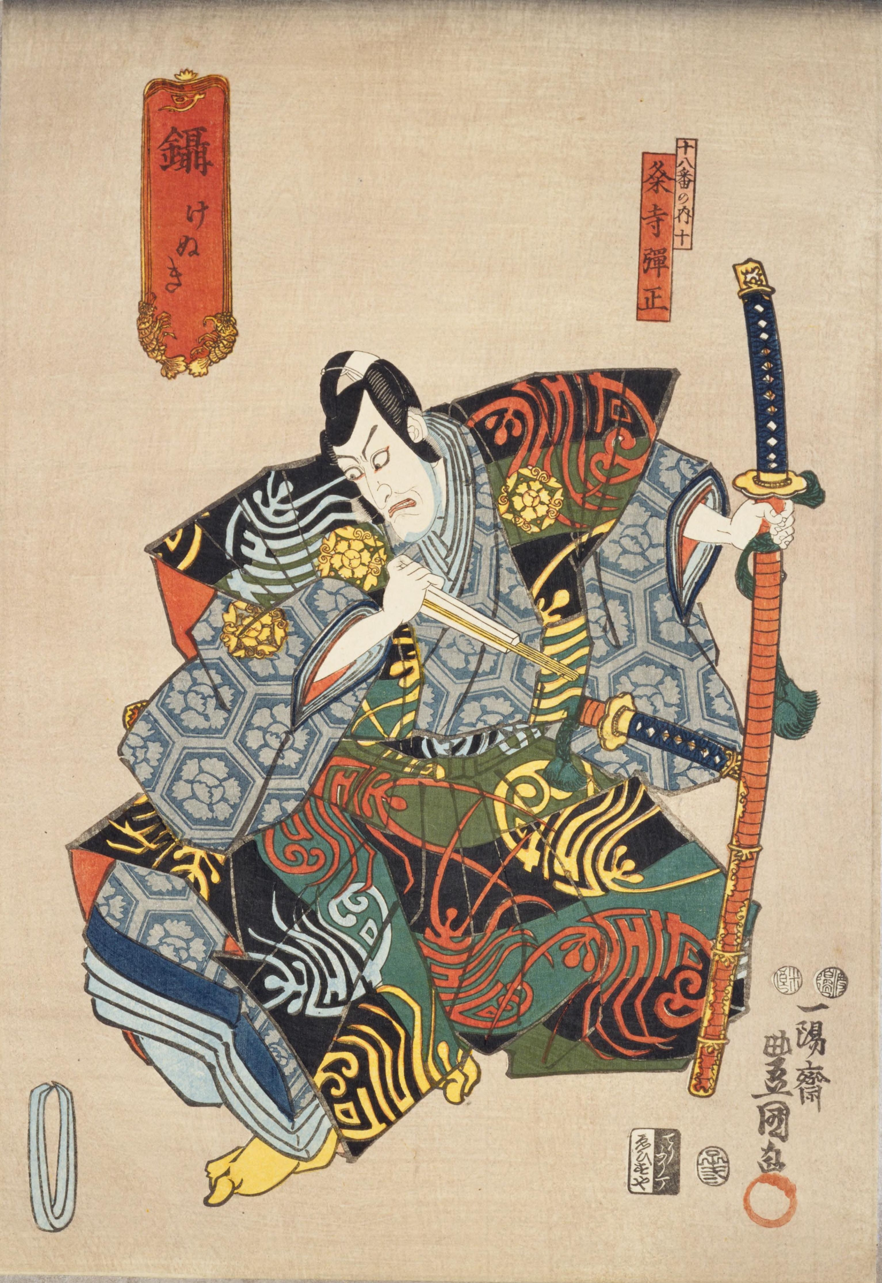 Part of the series The Eighteen Great Kabuki Plays, No. 10